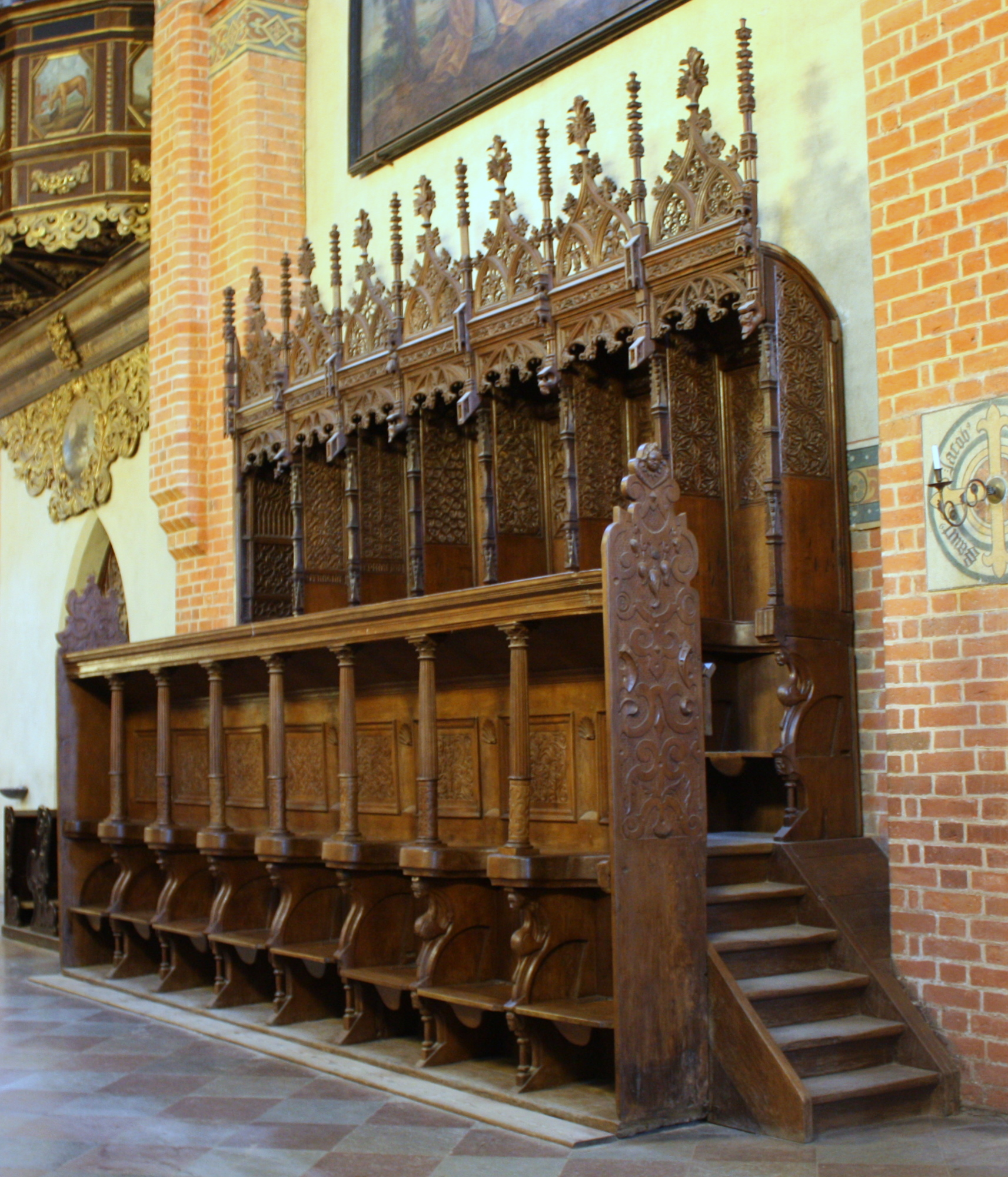 Pelplin Cathedral